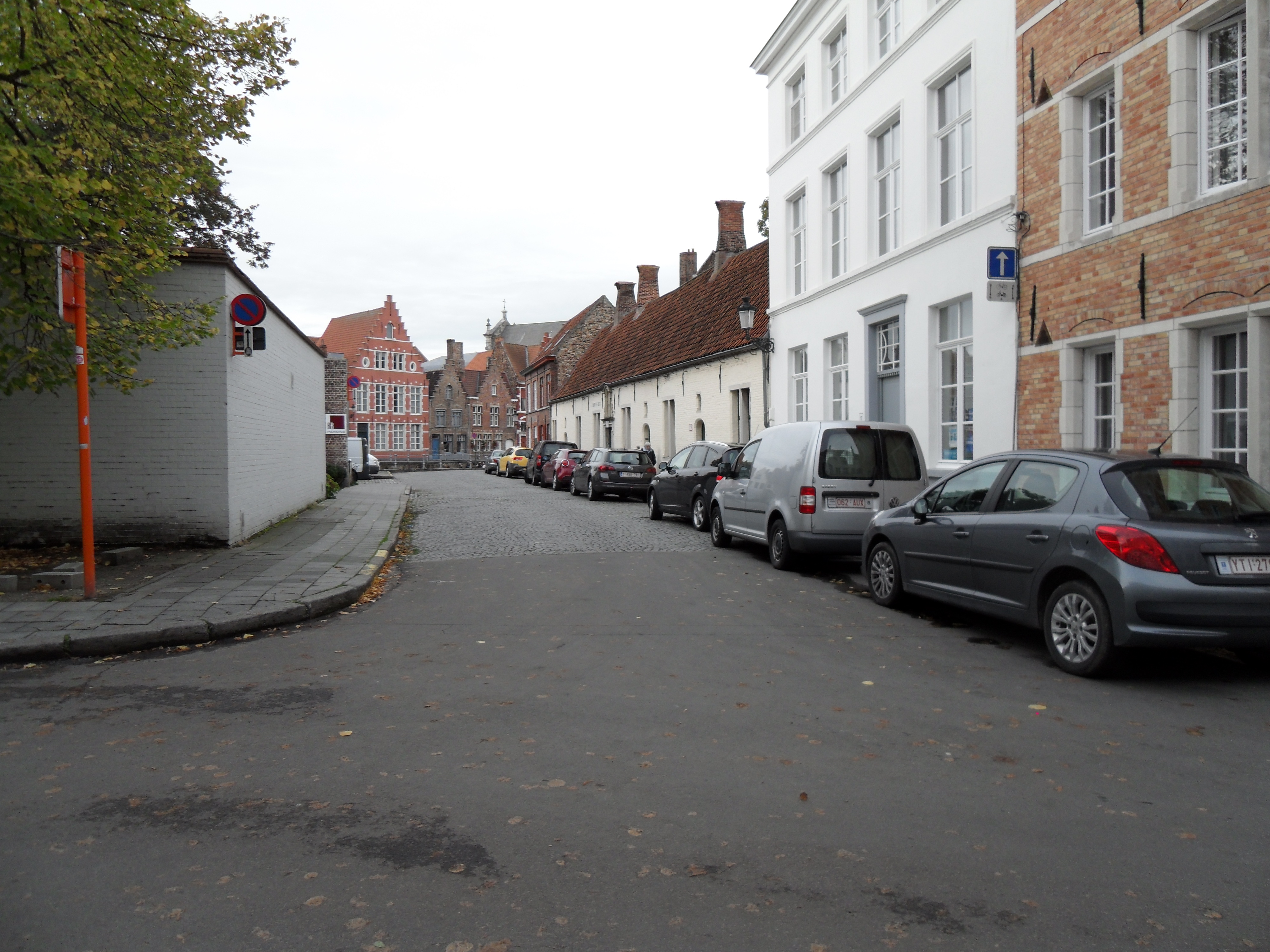 Leffingestraat